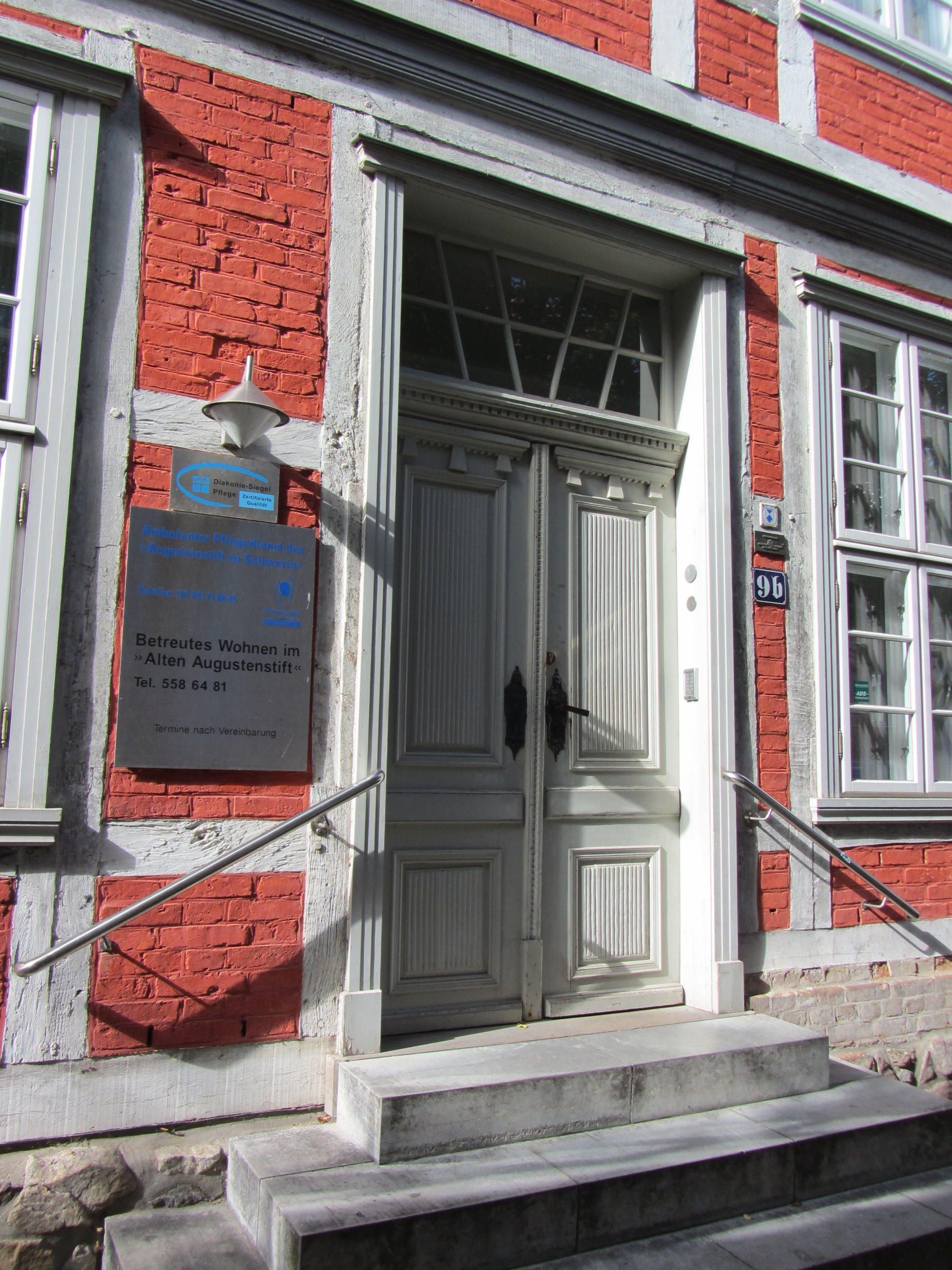 Augustenstift in Schwerin, Mecklenburg-Vorpommern, Germany